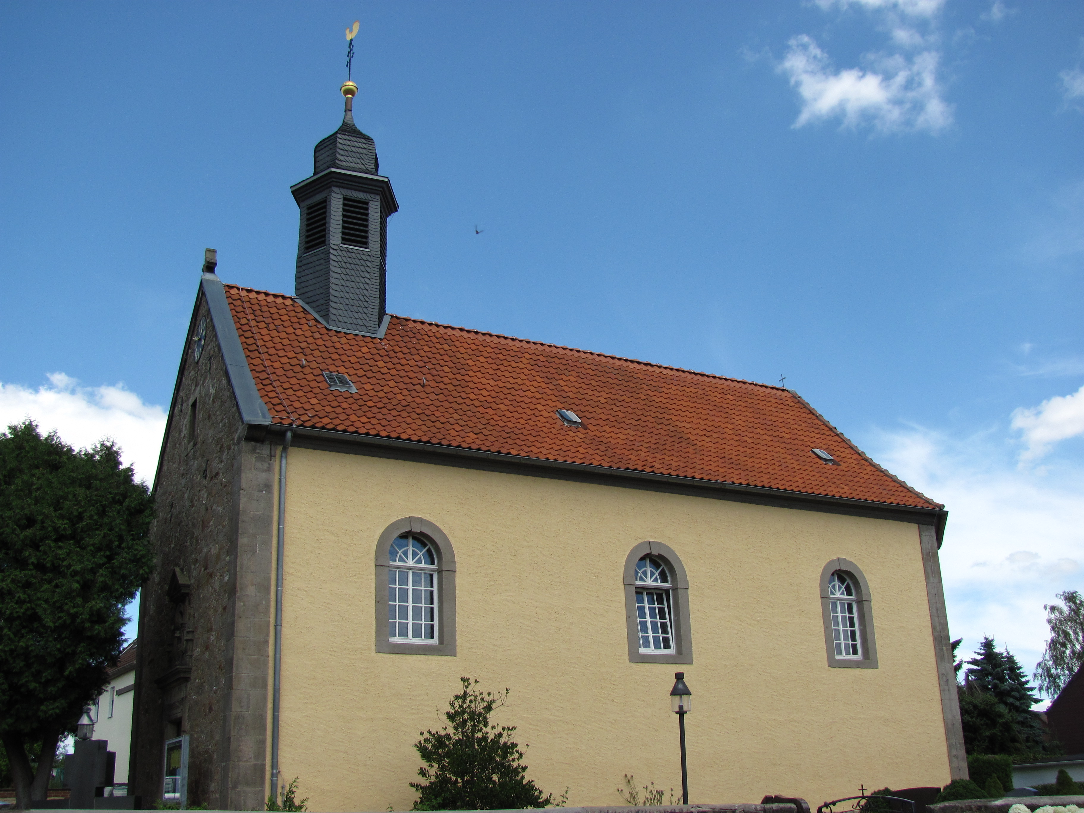 Catholic Church (1734), Diekholzen-Barienrode, Germany